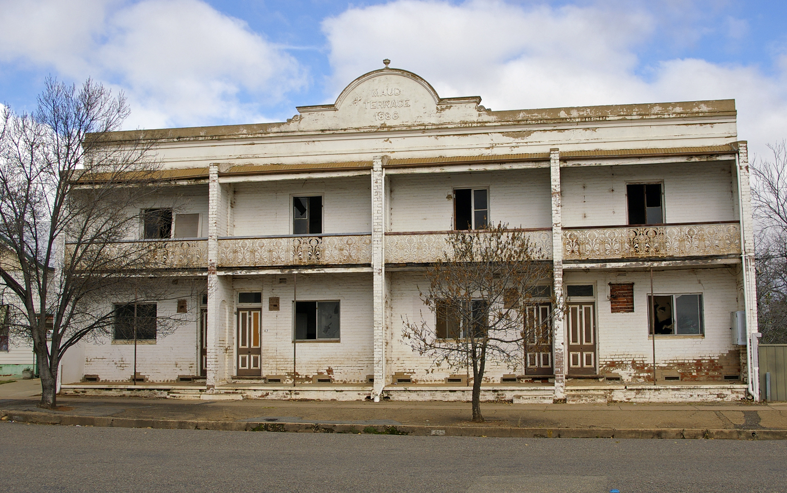 Maud Terrace in Junee.